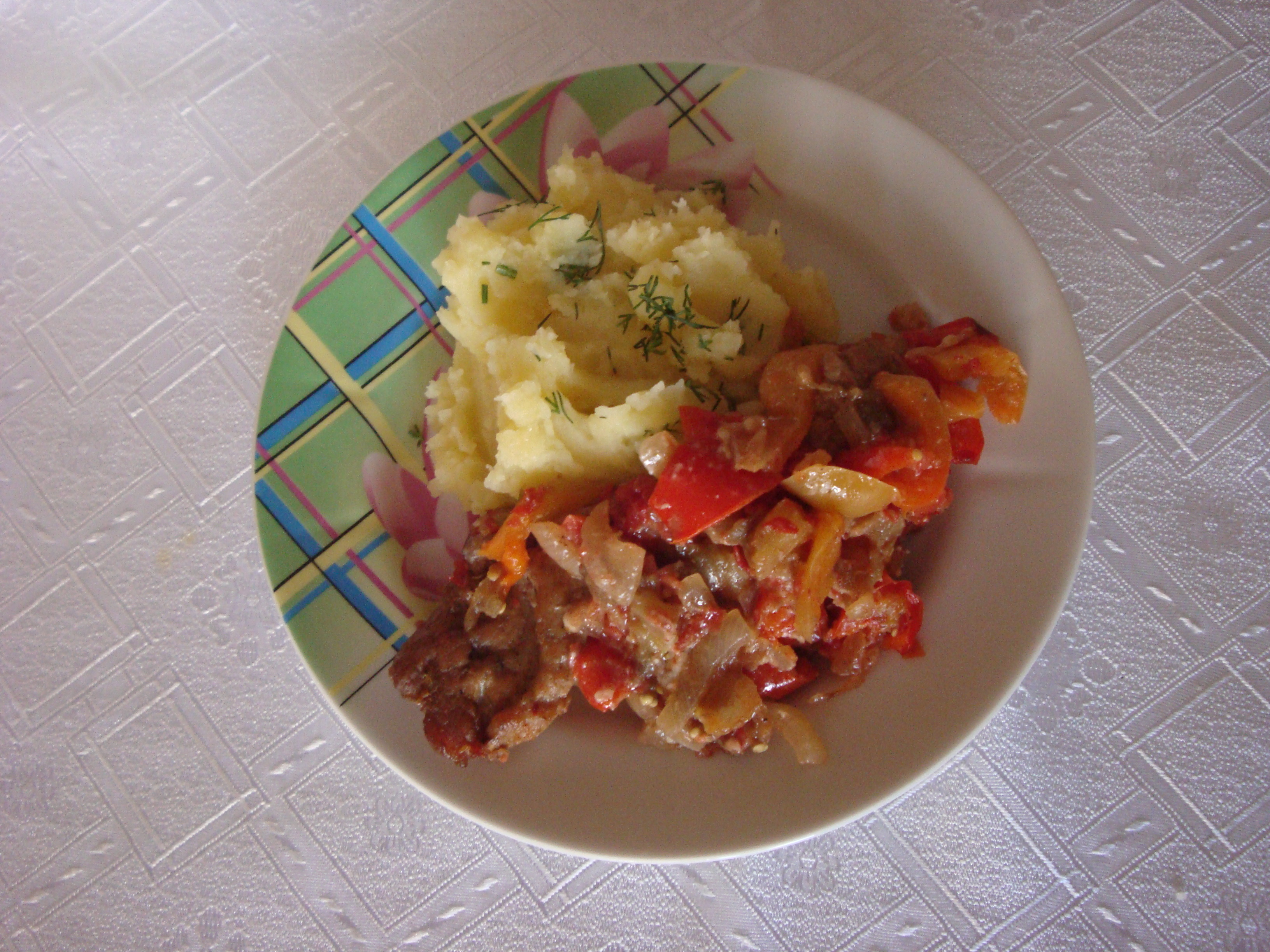 Cuisine of Belarus: Mashed potatoes with meat. Photed 2015 AD